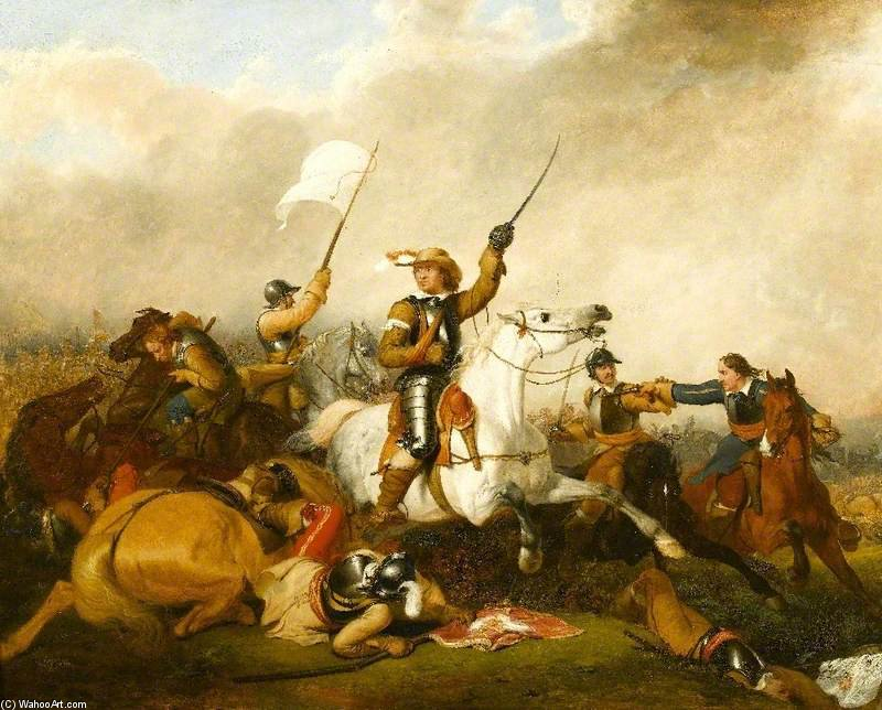 Abraham Cooper (1787–1868). Oliver Cromwell At the battle of Marston Moor on 2 July 1644. 1821